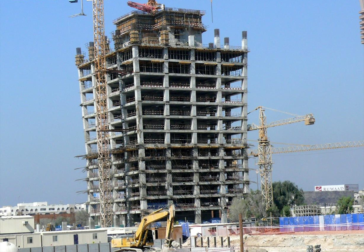 This is a photo showing the construction of One Business Bay, located in Business Bay in Dubai, United Arab Emirates, on 22 November 2007.